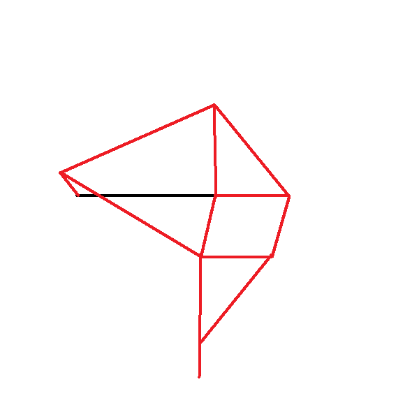 A Theo Jansen linkage made with MS paint. My first upload. The line on the left end of the black line represents the motor.